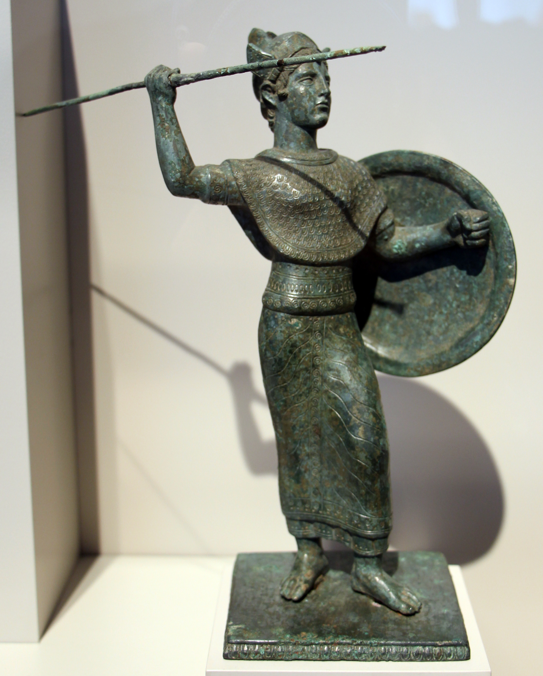 Etruscan antiquities in the Altes Museum Berlin